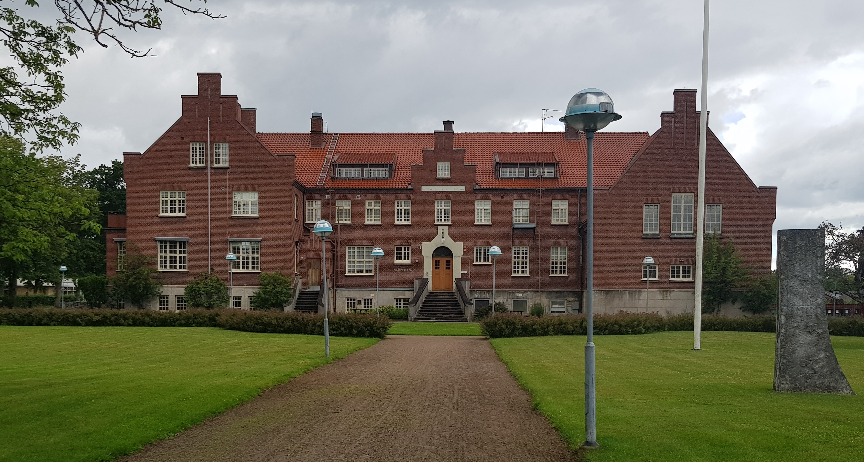 Munka folkhögskola in Munka Ljungby, Sweden.